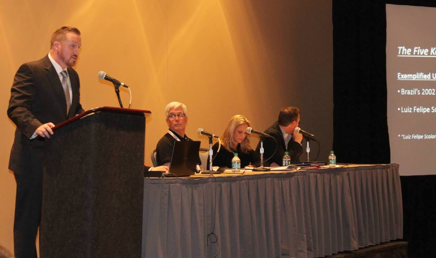 Liam Shannon presenting "The Art of War Theories in Soccer," at the 2015 United Soccer Coaches national convention in Philadelphia.